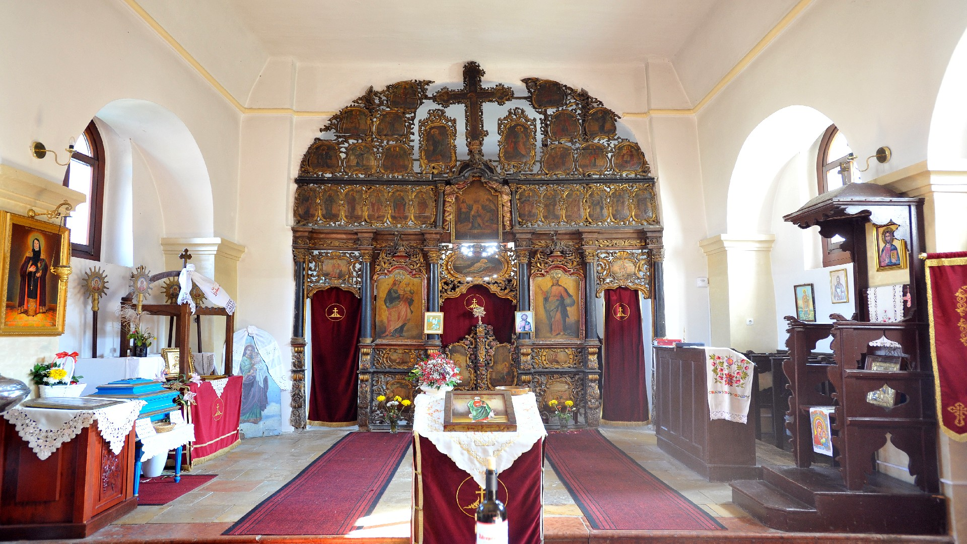 Church of Saint Luke in Kupinovo- interior